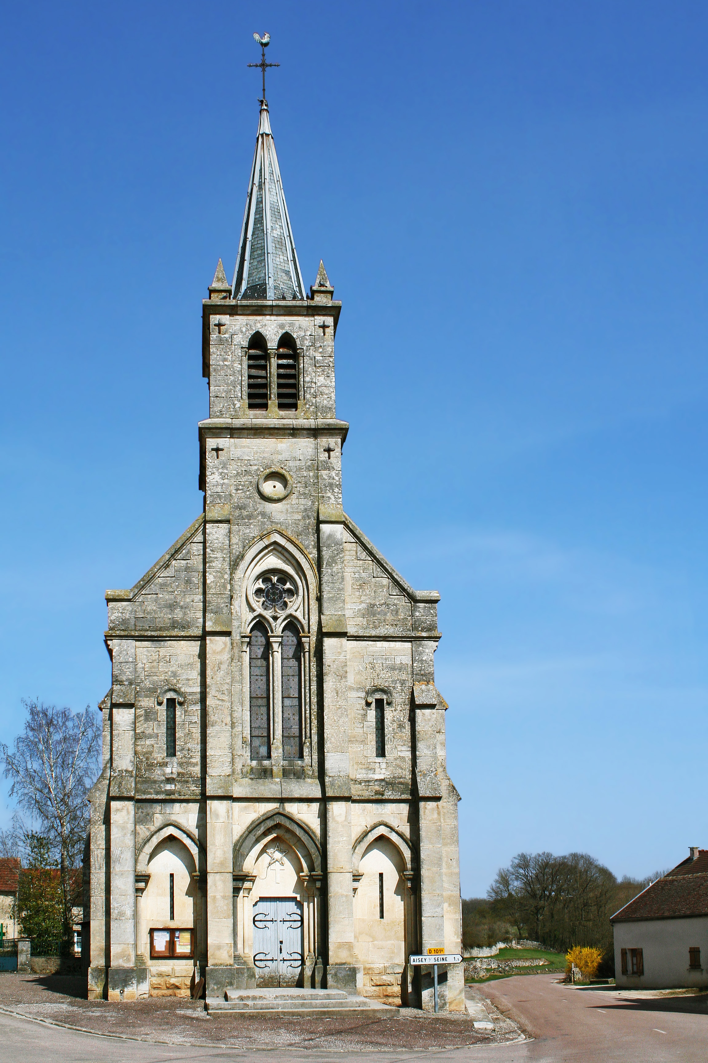 Church of Nativity in Chemin-d'Aisey